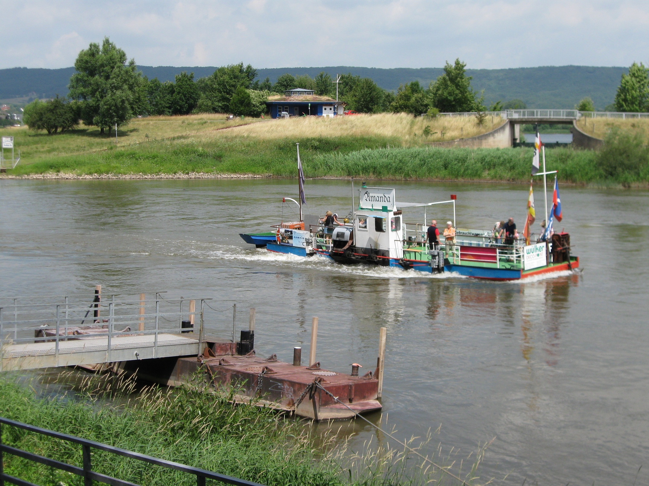 Ferry "Amanda" crossing the Weser near Bad Oeynhausen, District of Minden-Lübbecke, North Rhine-Westphalia, Germany.